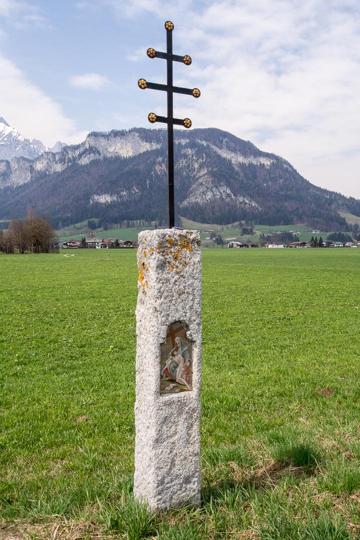 Shrine, stele, St. Johann in Tirol.